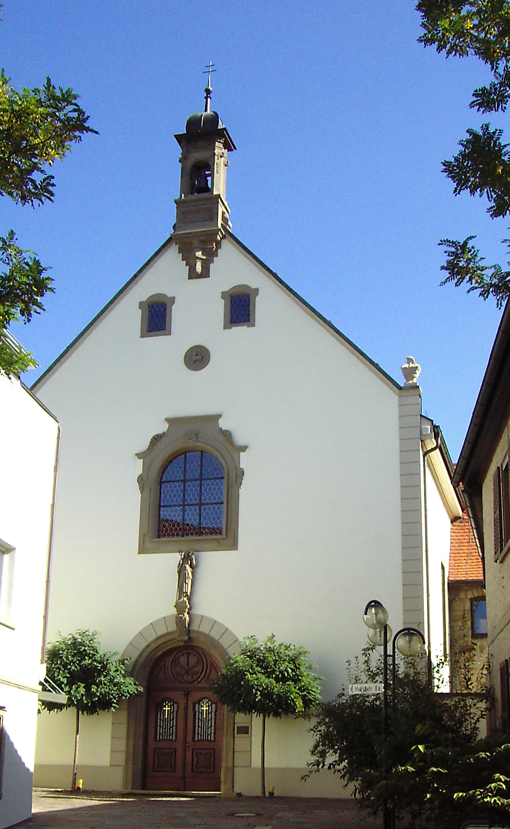 Church "Klosterkirche" (exterior view) of the City Neckarsulm